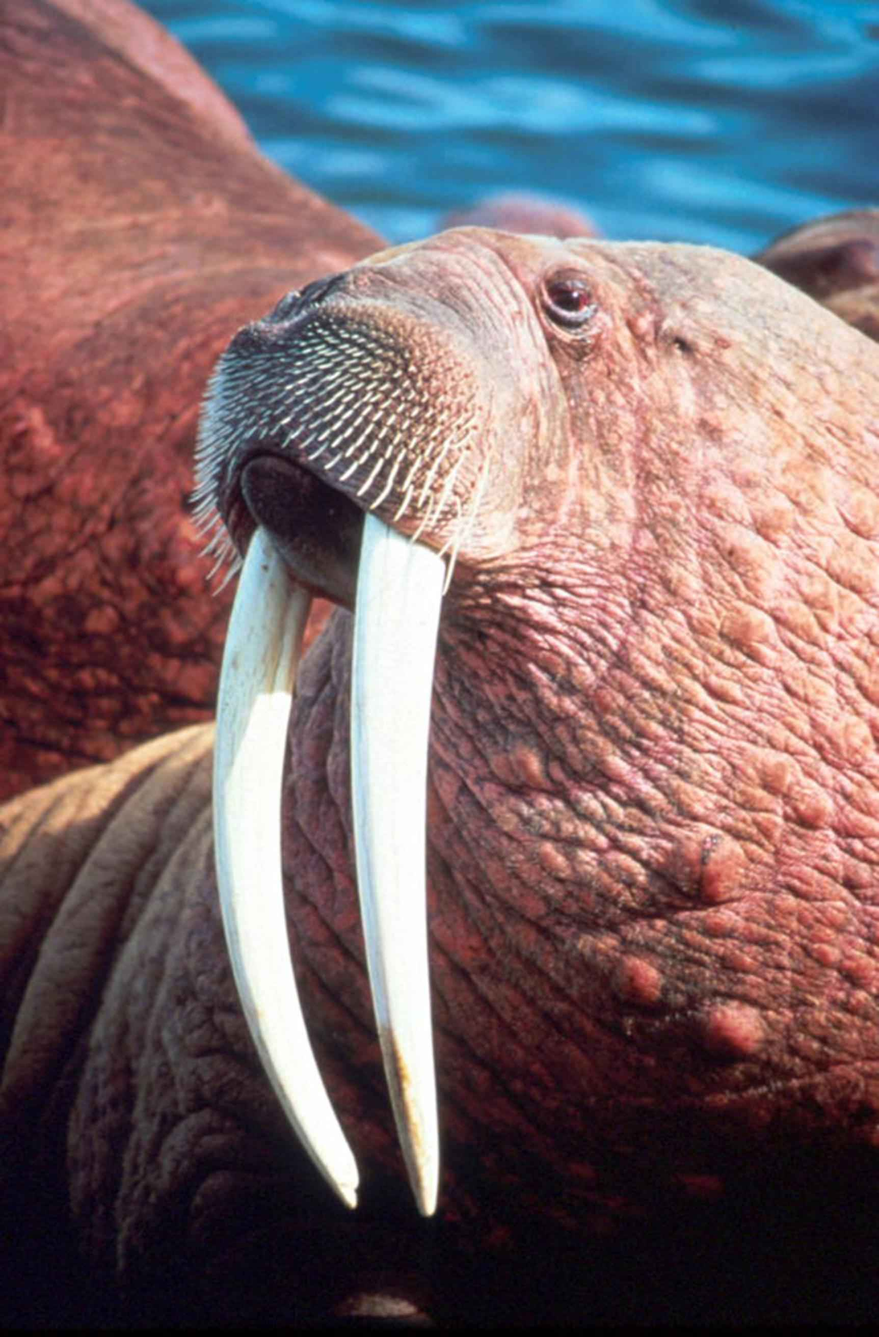 Image title: Walrus male close up head odobenus rosmarus Image from Public domain images website